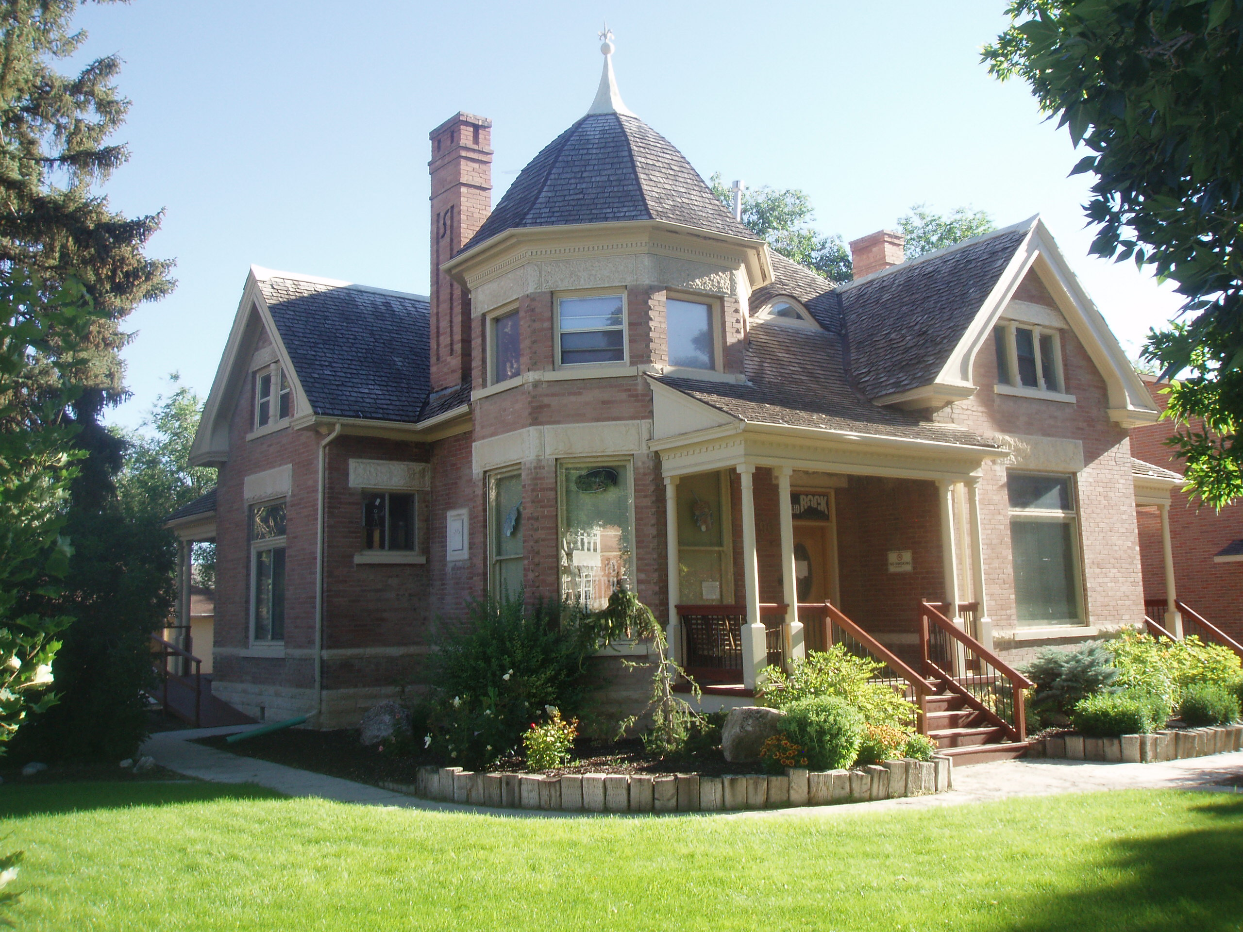 The Larsen-Noyes House, a historic home in Ephraim, Utah, United States.